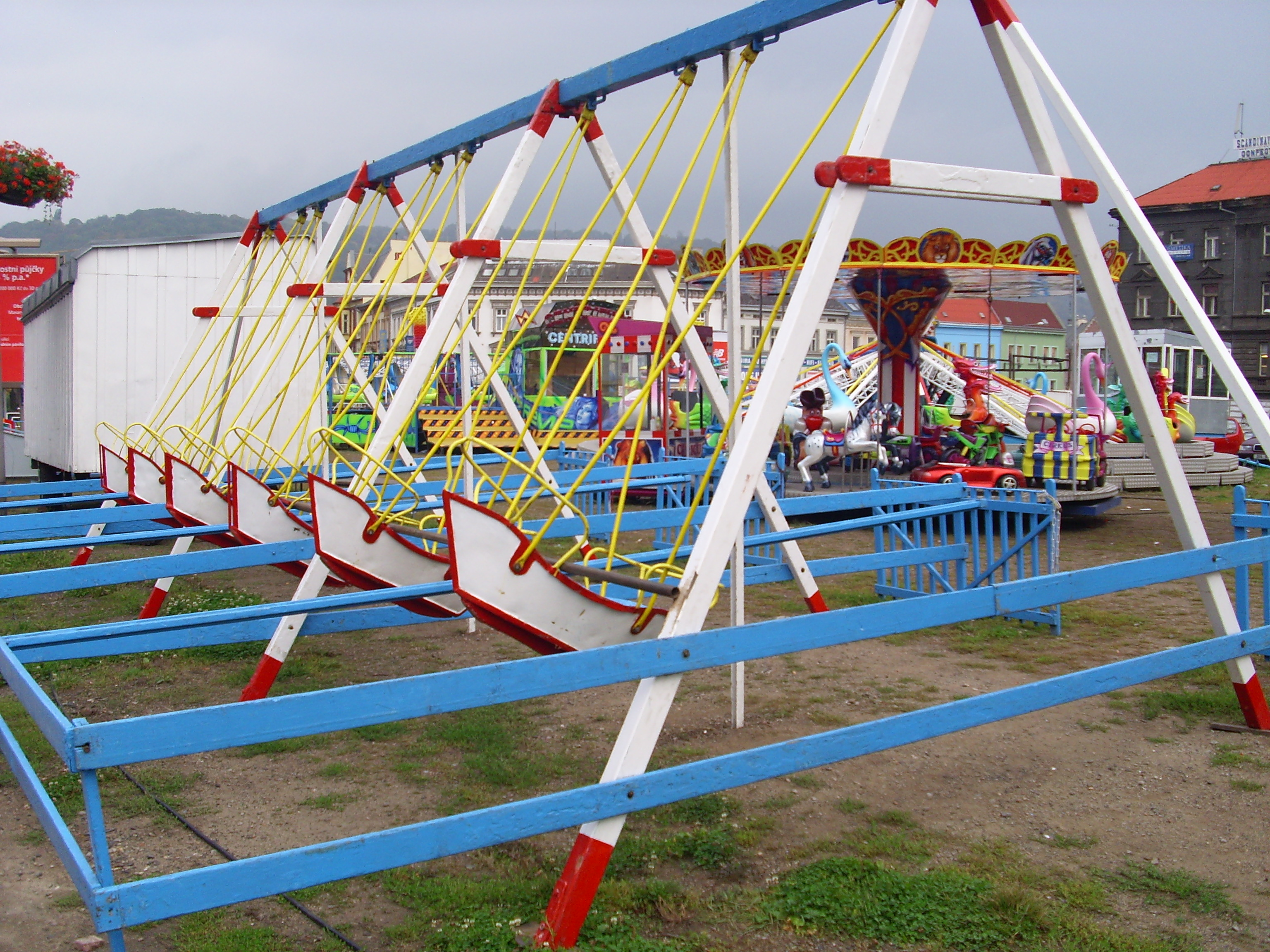 Swing (seat)